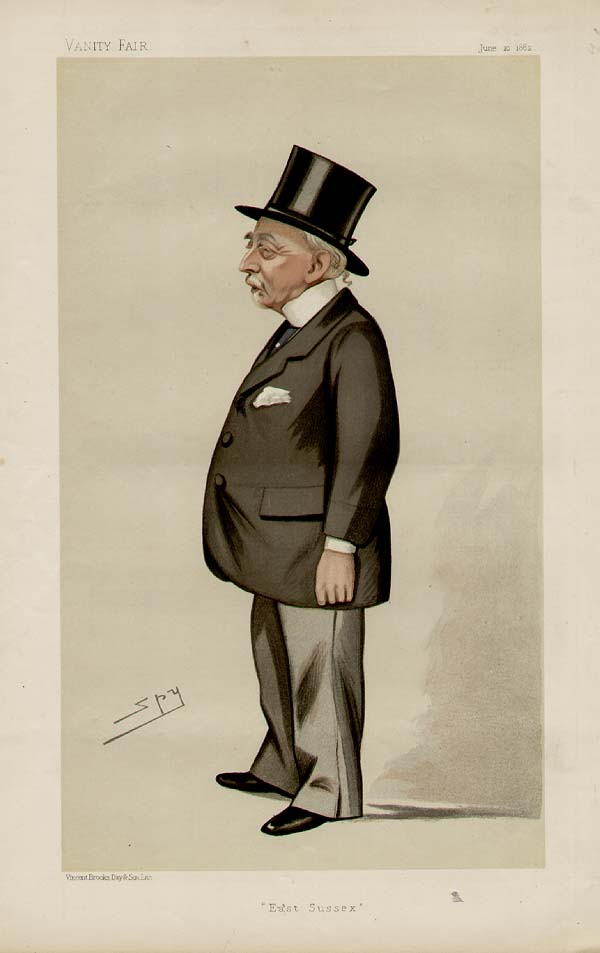 Caricature of Montagu David Scott MP. Caption read "East Sussex".